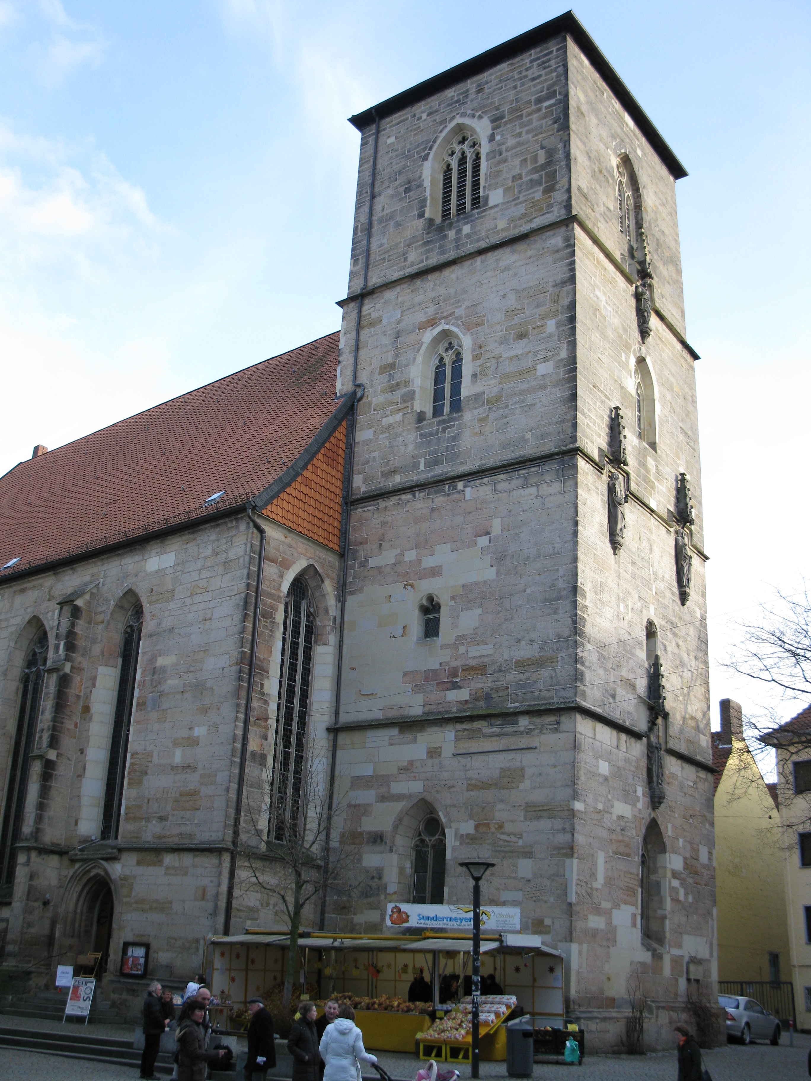 Saint Jakobi Church, Hildesheim